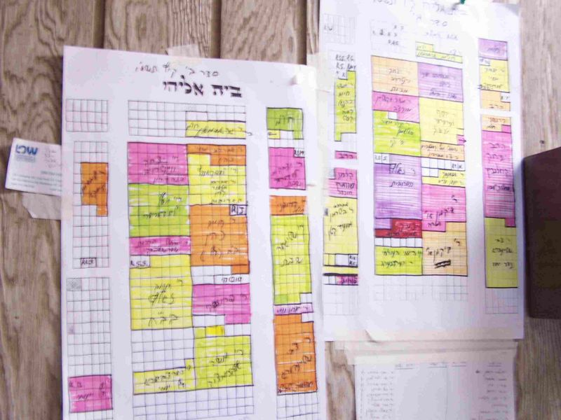 Beth Madrash Govoha Seating Map Poster Beth Madrash Govoha Seating Map Poster